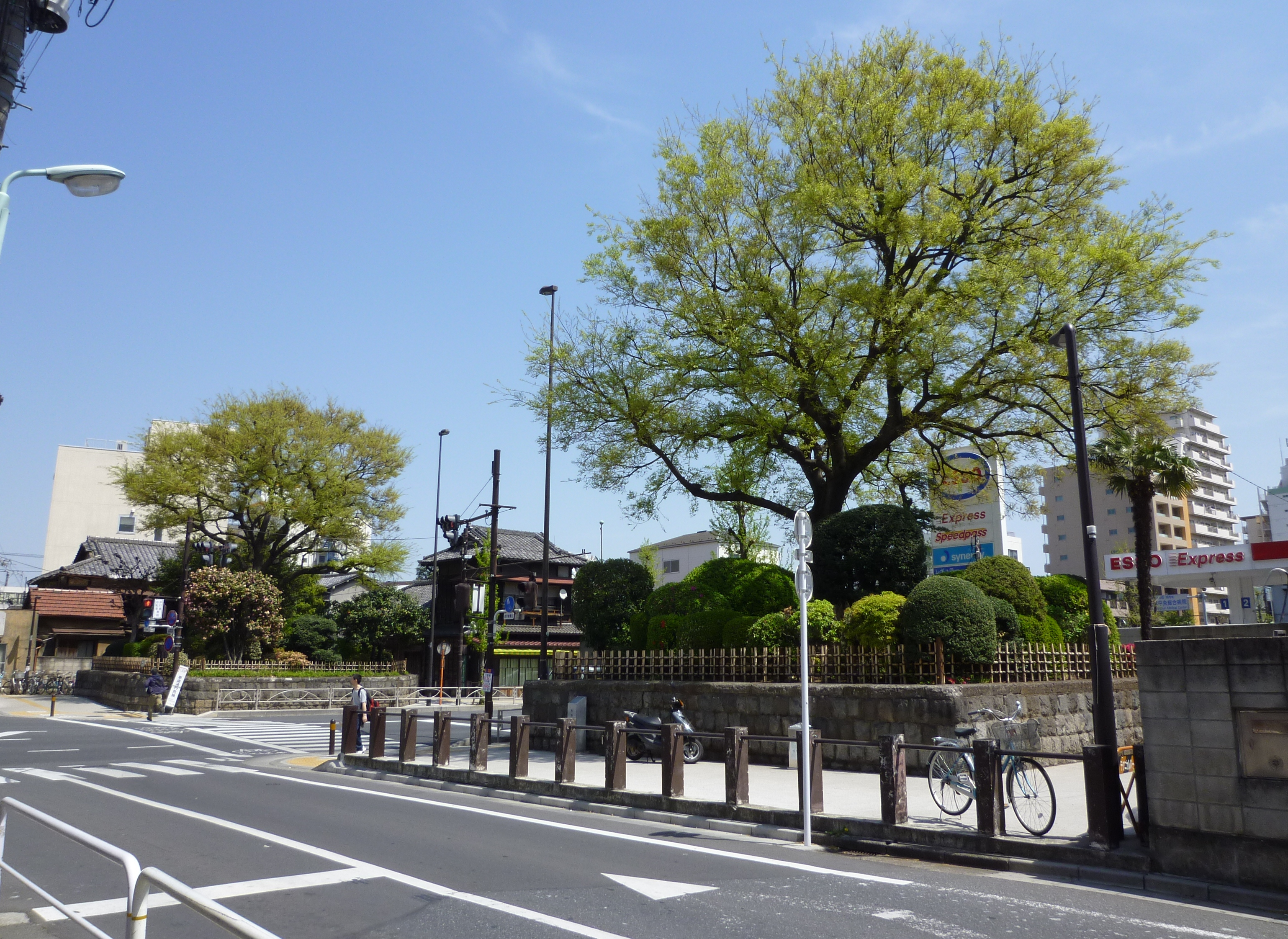 Shimura Ichirizuka on the Nakasendō in Itabashi, Tokyo